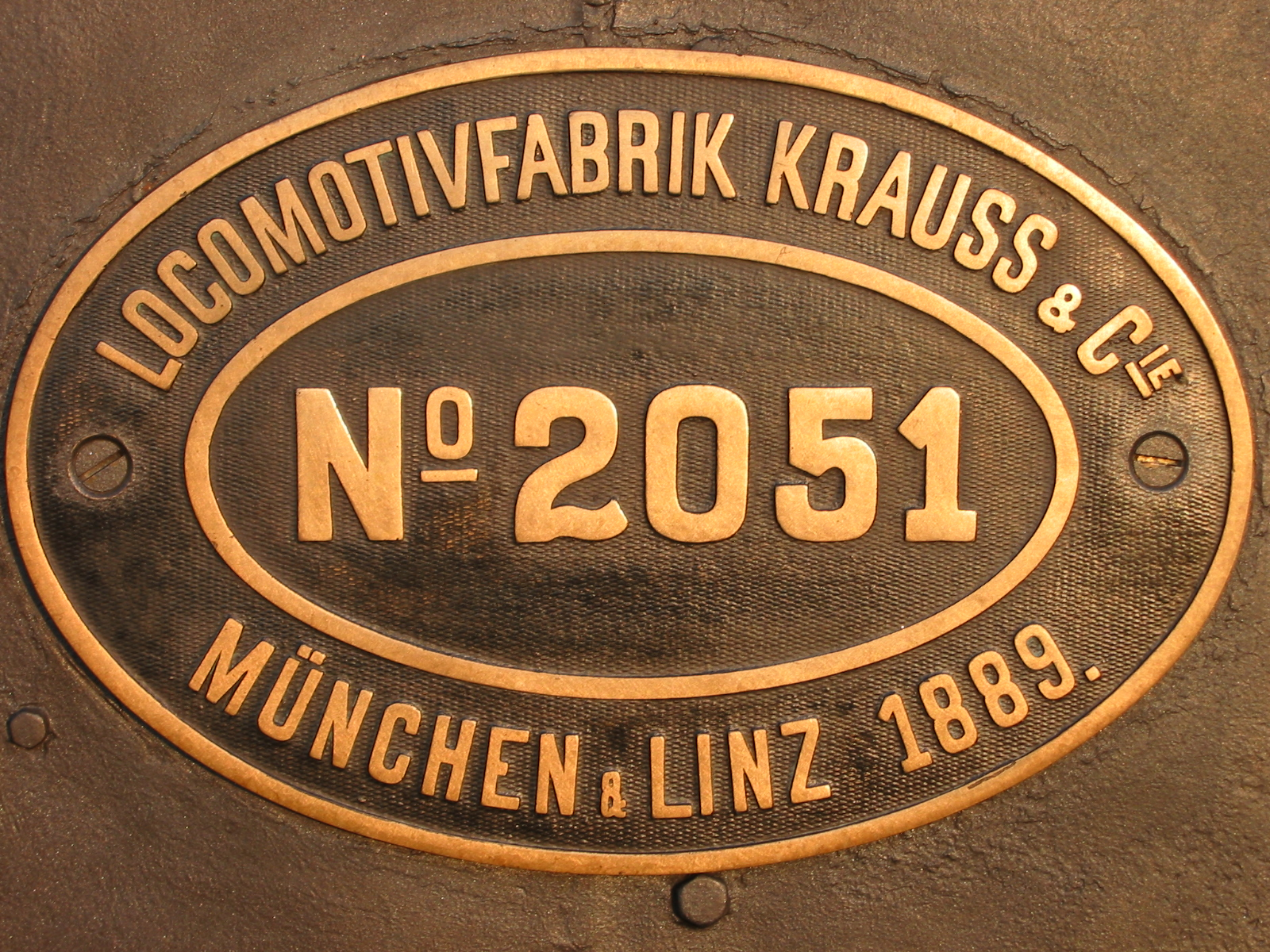 Locomotive Fuessen (1889) manufacturer's nameplate